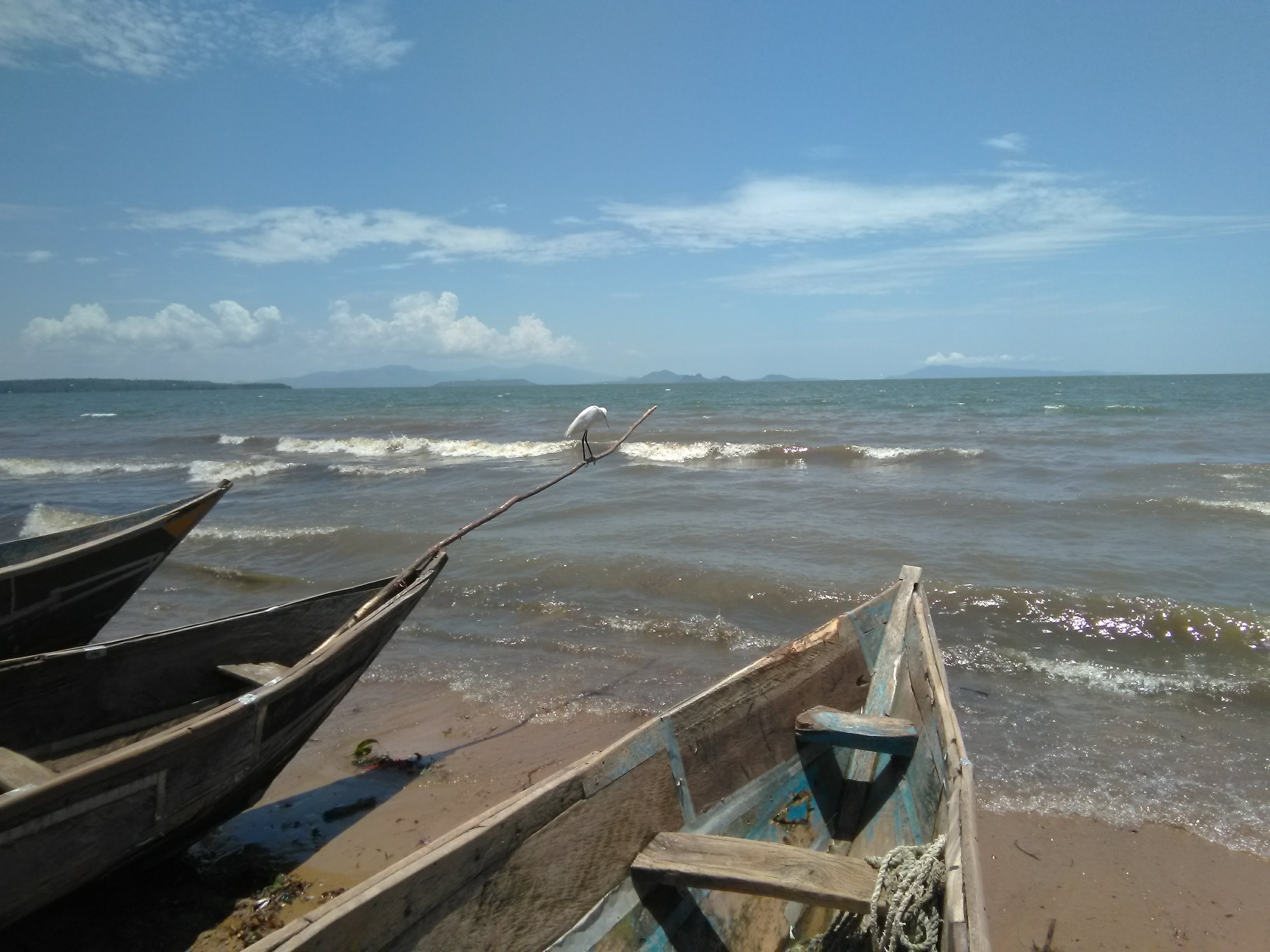 The photo was taken at the shores of Lake Victoria on a local beach after the fishermen have docked from fishing overnight. This is an image with the theme "Africa on the Move or Transport" from: Kenya